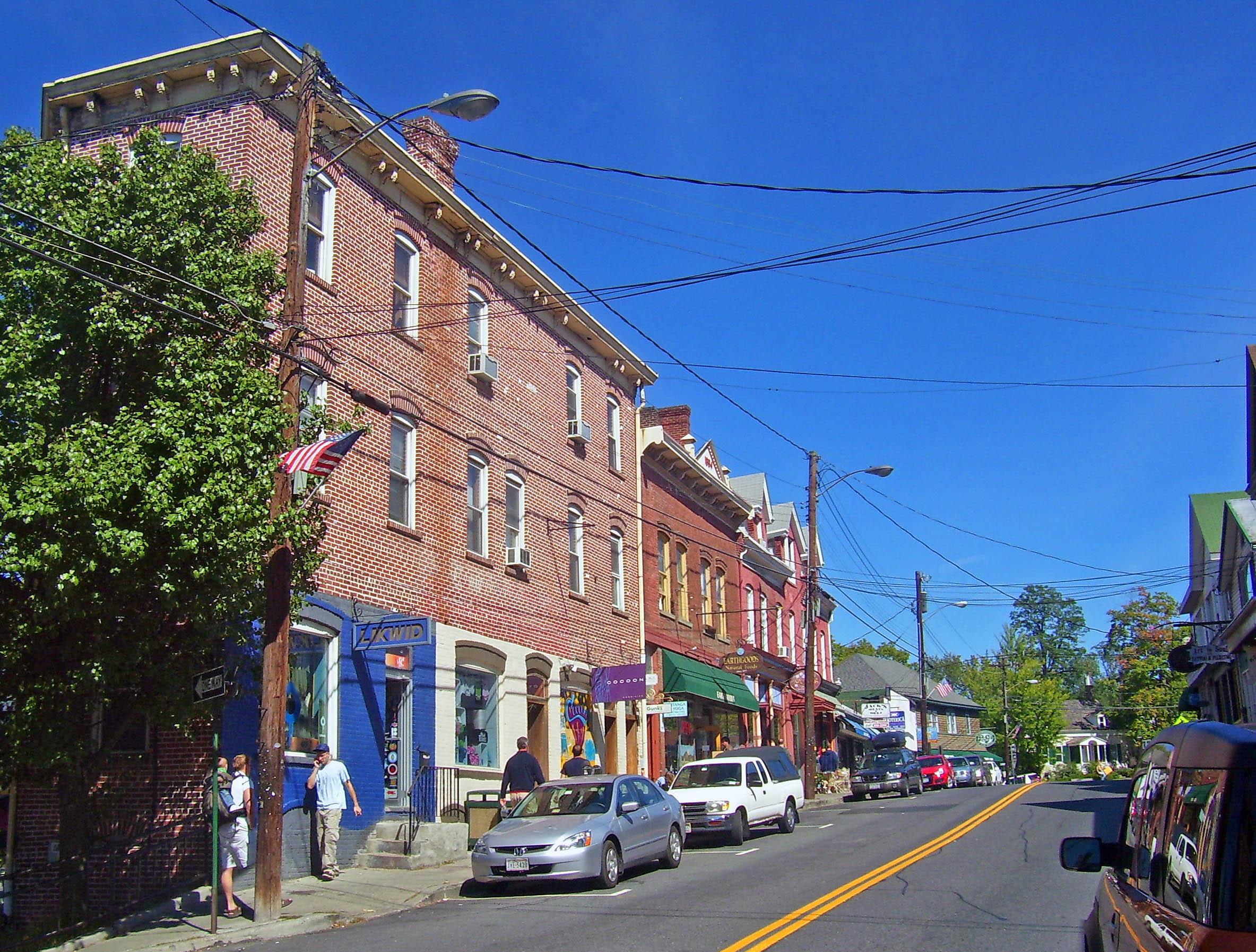 Downtown New Paltz, looking westward along Main Street (NY 32/299), part of the Downtown New Paltz Historic District